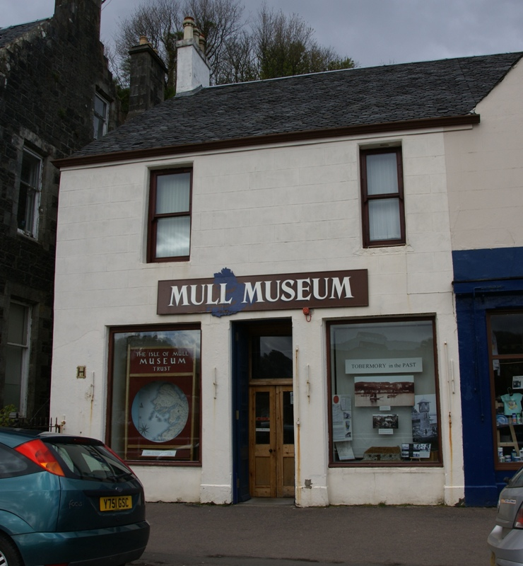 Mull Museum, Tobermory, Argyll and Bute, Scotland.